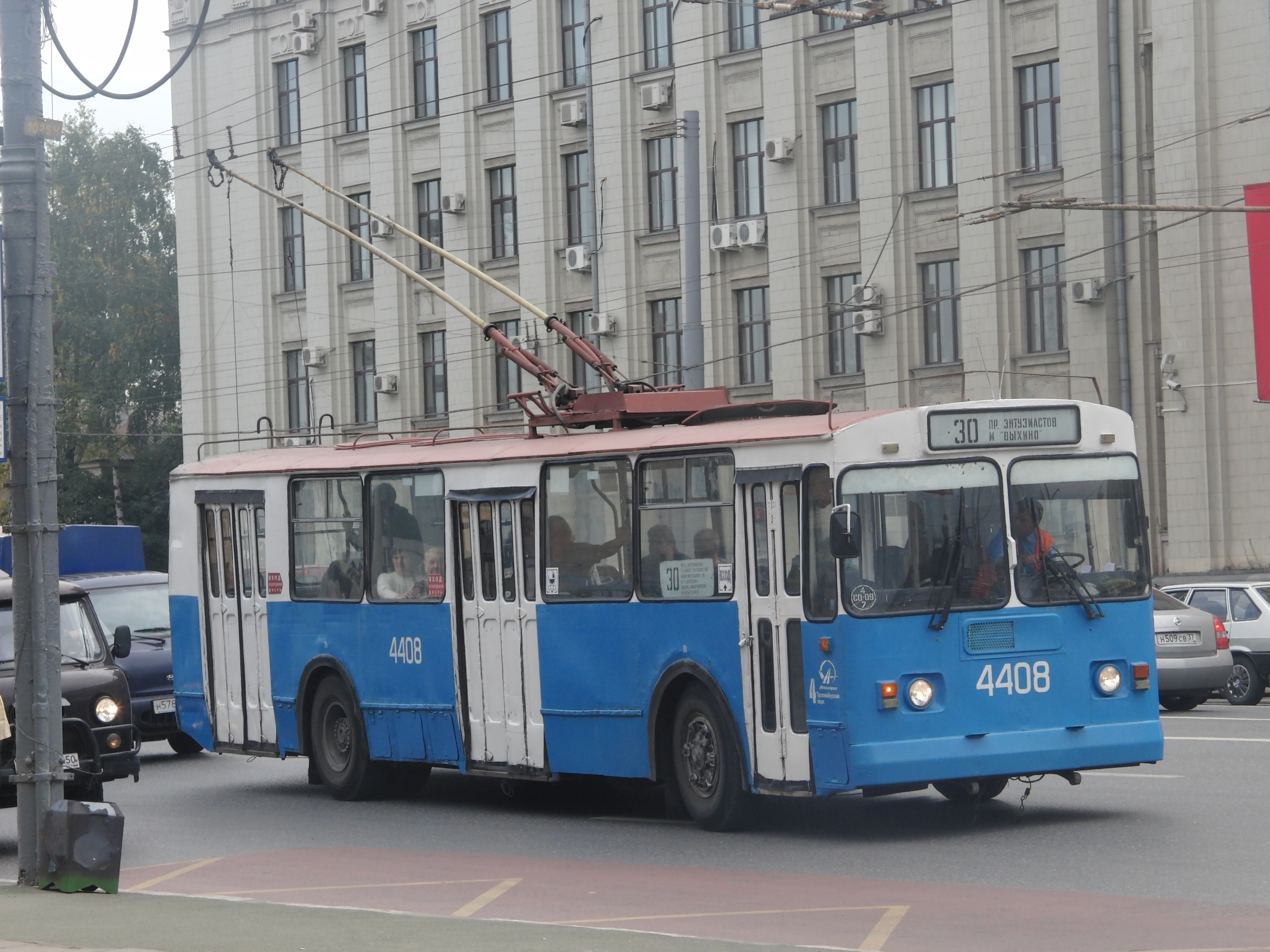 Shosse Enthusiastov, trolley #30